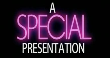 The words "A Special Presentation" in neon letters